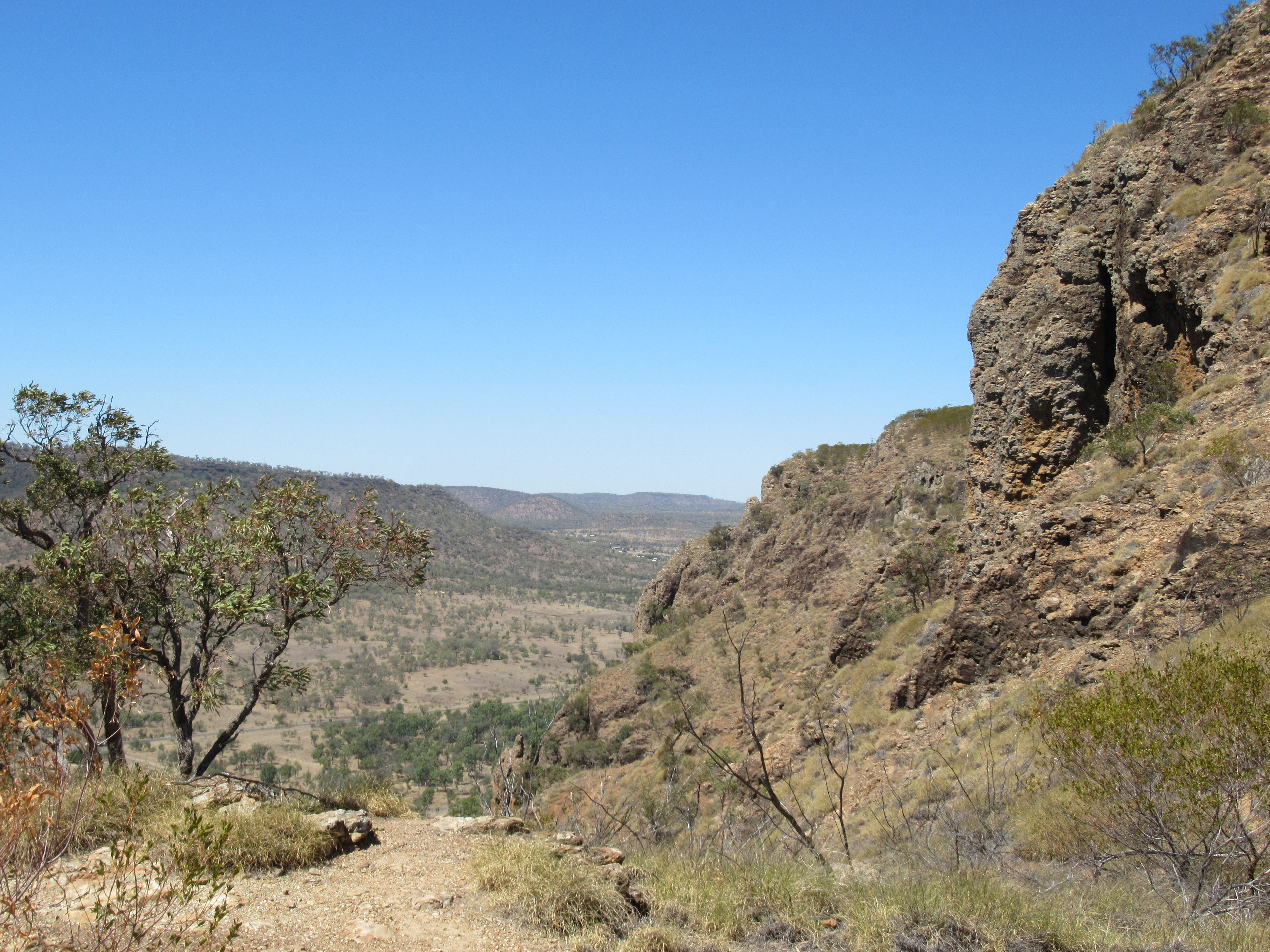 View of Minerva Hills National Park, near Springsure, Queensland, Australia. This view shows sparse vegetation and young volcanic rocks, specifically the Minerva Hills Volcanics